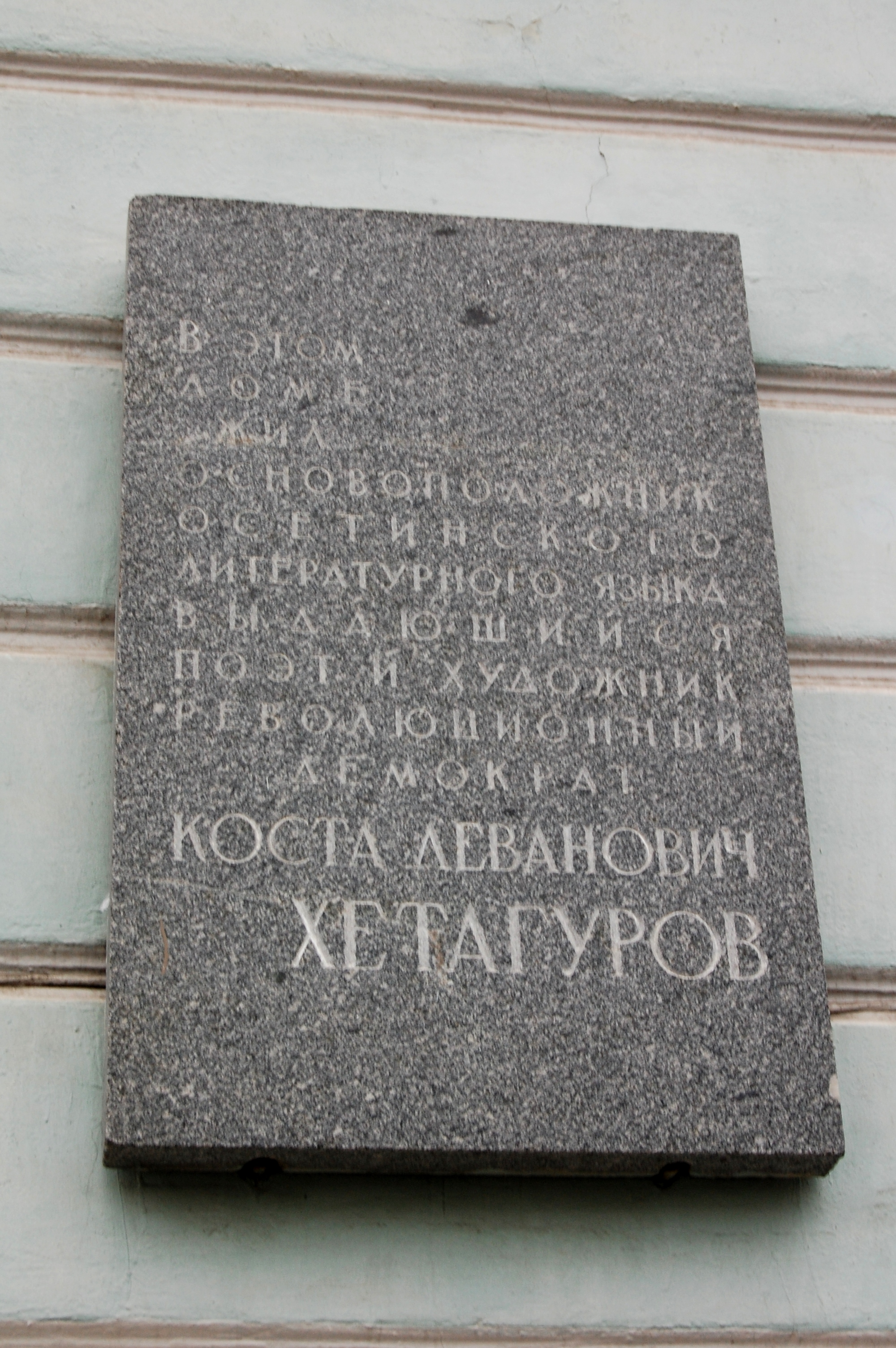 Kosta Khetagurov Plaque in Saint Petersburg (Moika Emb., 17)